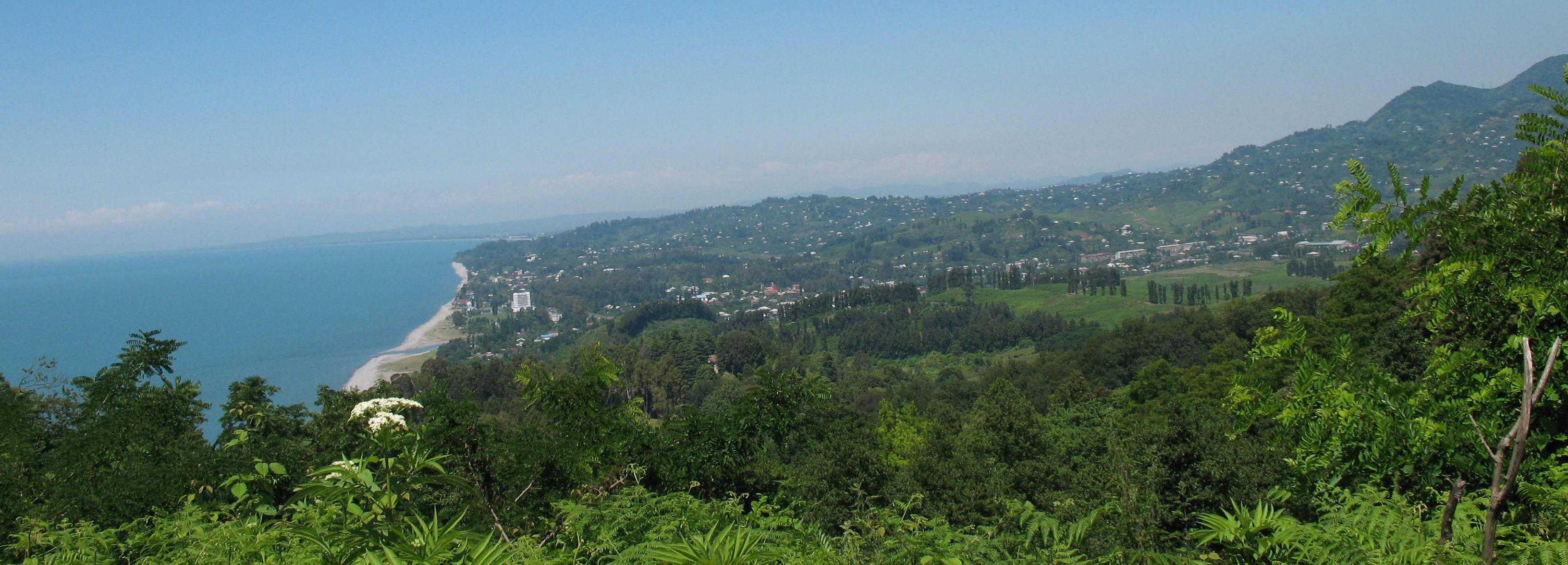 view to Chakvi